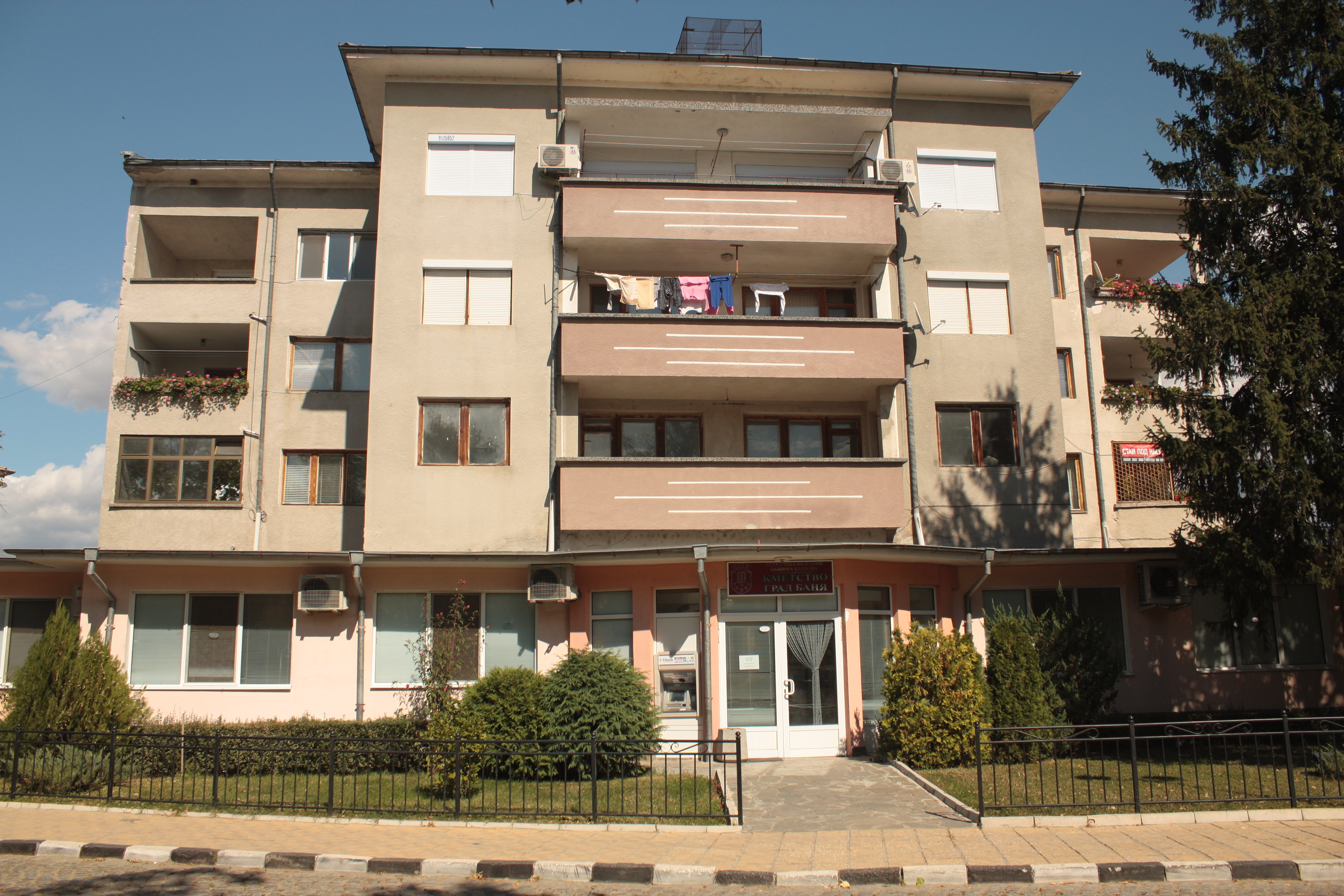 Banya Town hall - the basement floor of a communal residential building